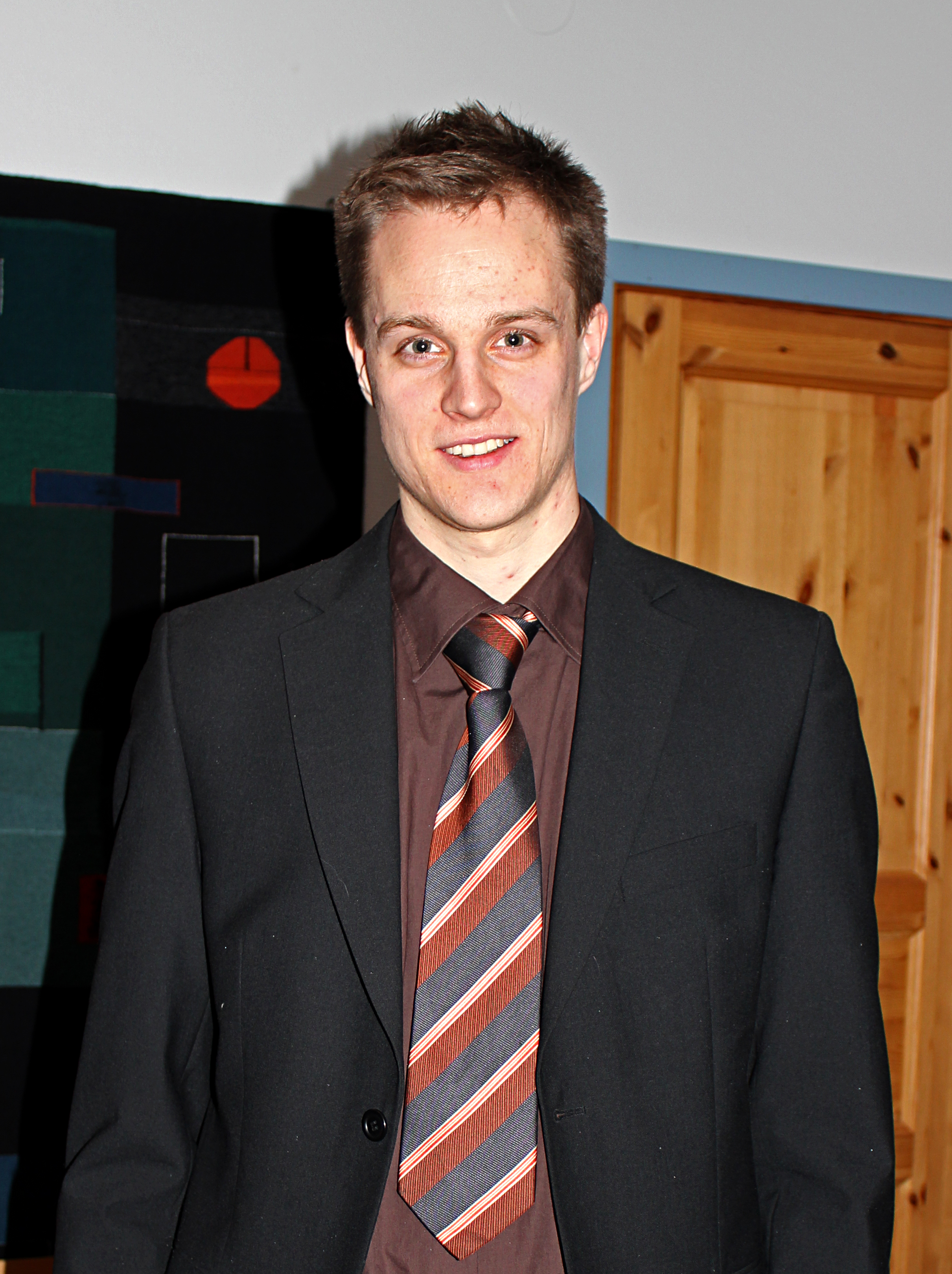 Swedish ski jumper Johan Erikson. Picture taken with permission on a private party.